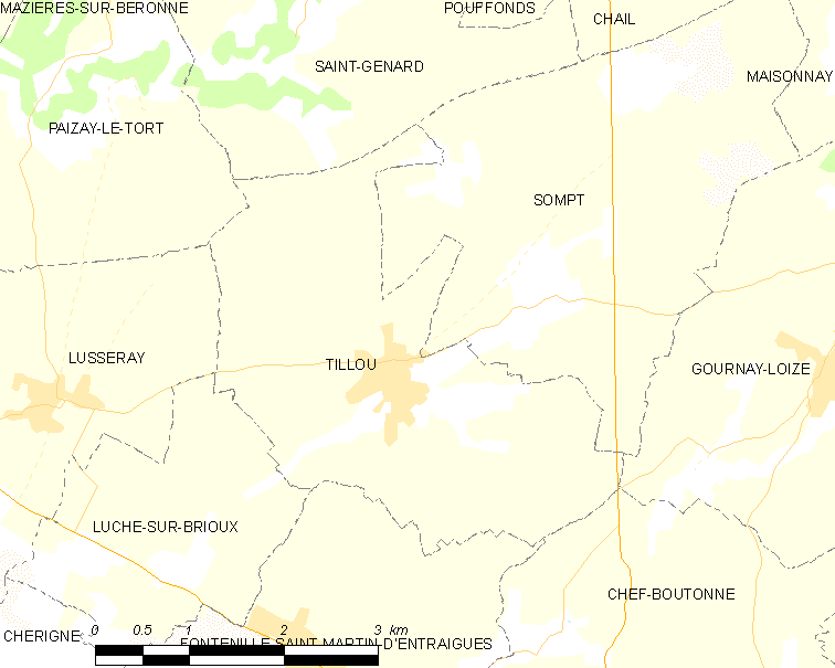 Map of French municipality Tillou